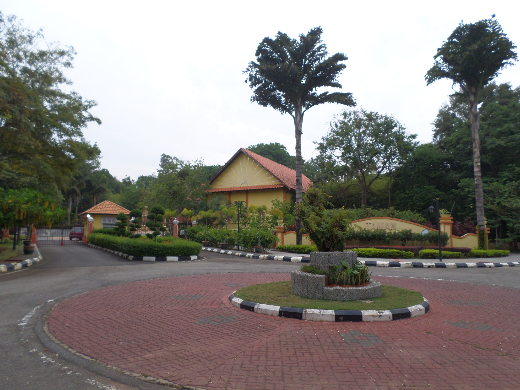 Garden of Thousand Flowers, Ayer Keroh, Melaka, Malaysia